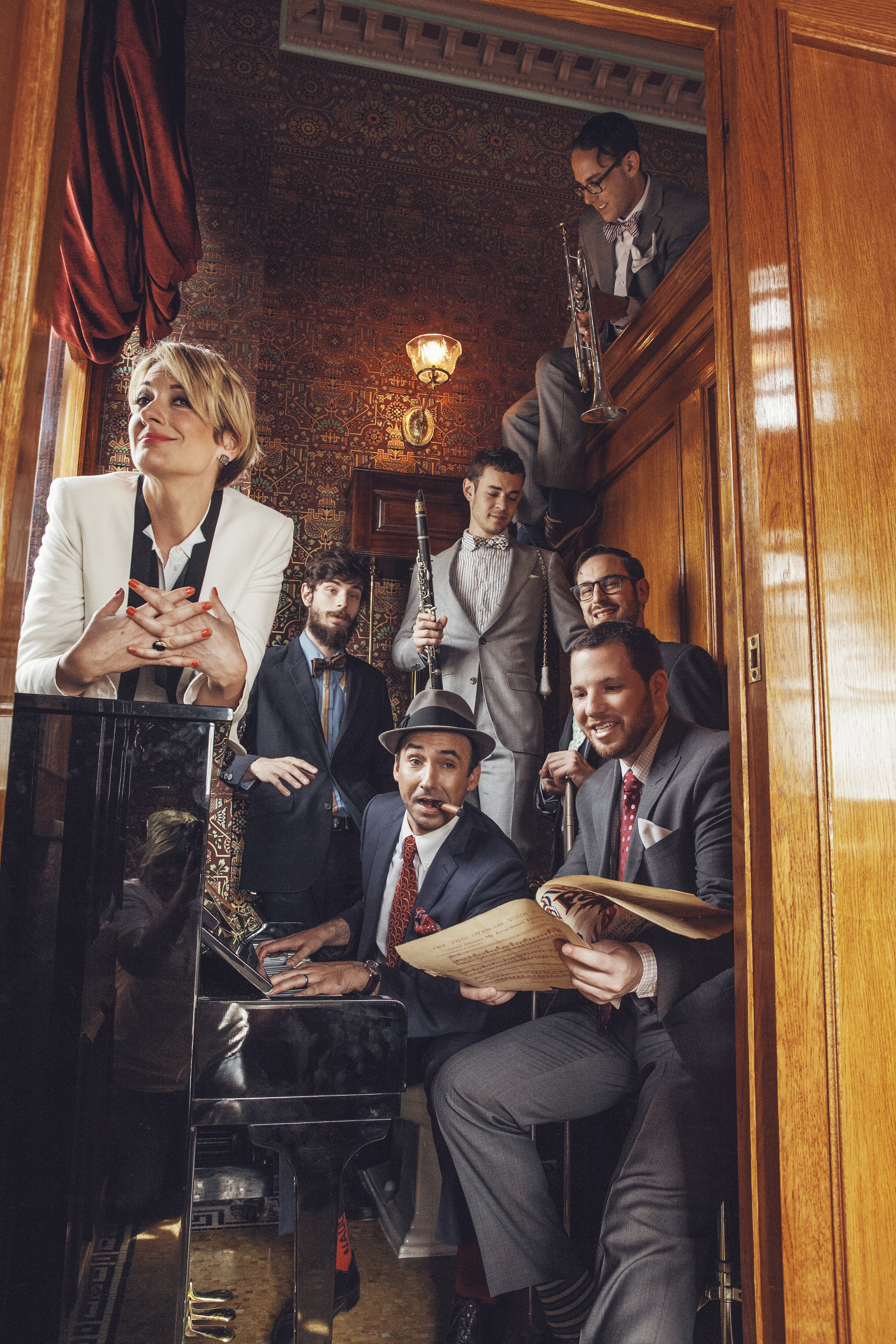 This is a photo of the New York based jazz band The Hot Sardines showing seven of the principal members.